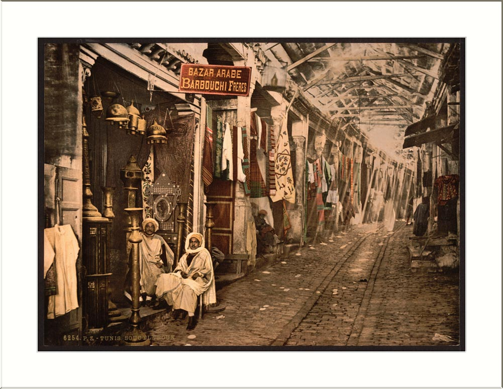 Souc-el-Trouk Tunis Tunisia